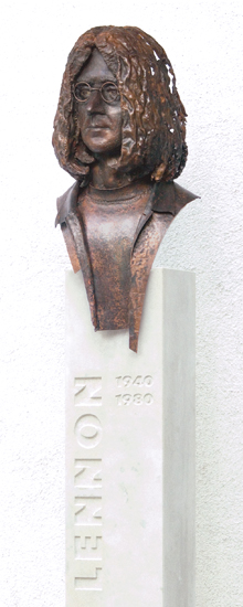 John Lennon bust, Sopron, Hungary, by Laszlo Szlavics, Jr.